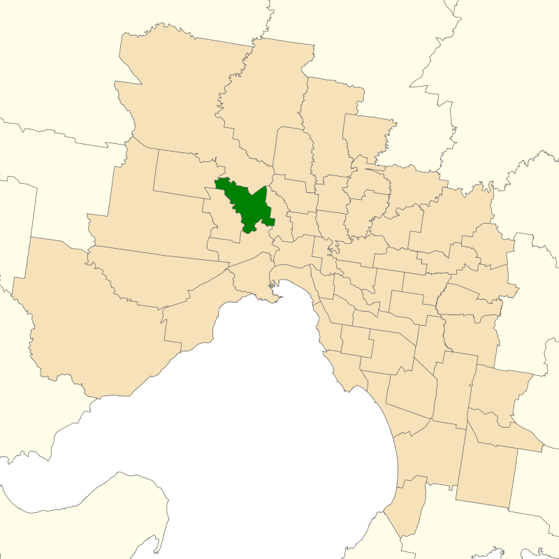 Location of the Victorian electoral district of Niddrie (dark green) in the Greater Melbourne area.